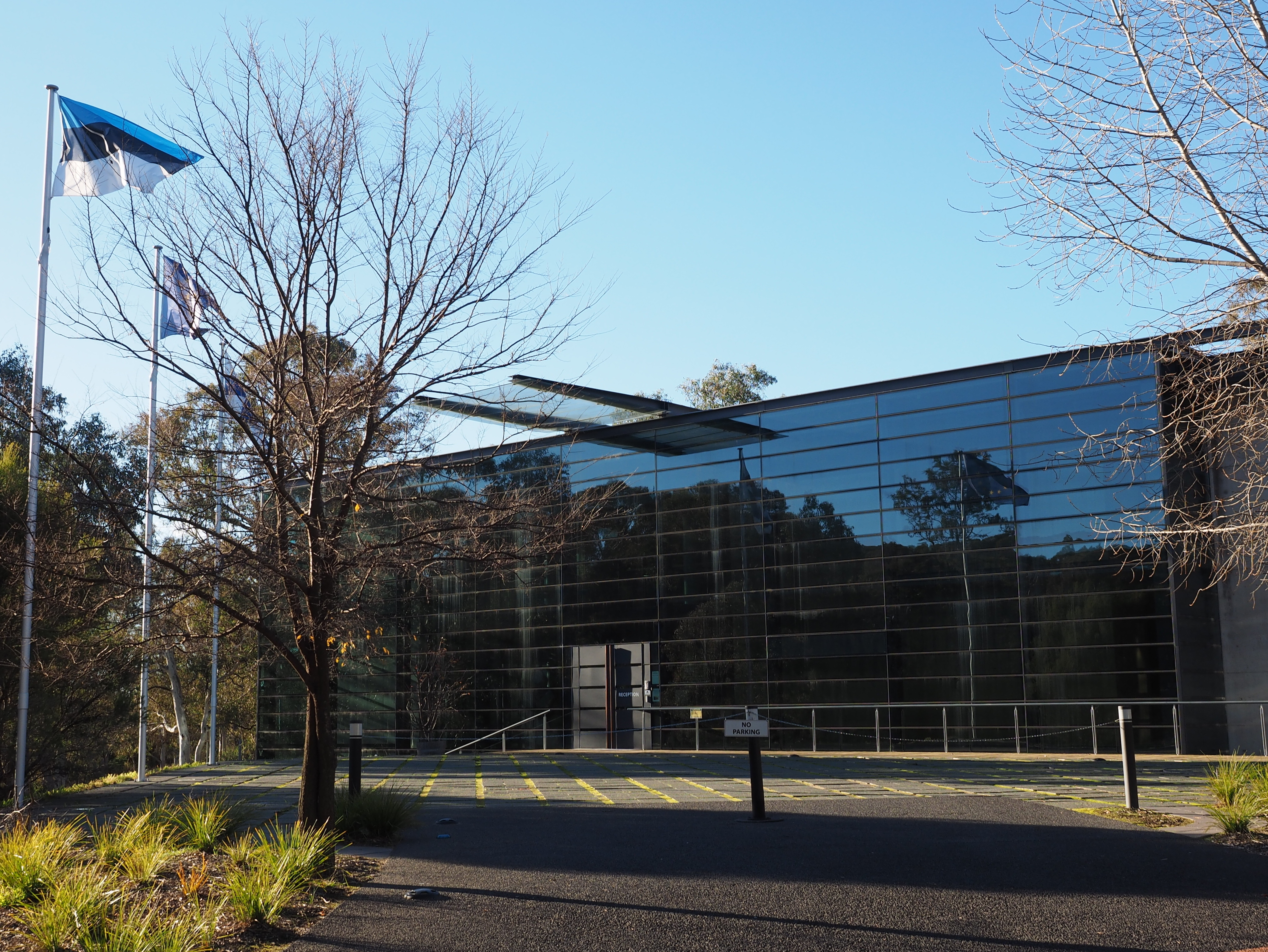 The southern face of the buiding which houses the embassies of Estonia and Finland to Australia